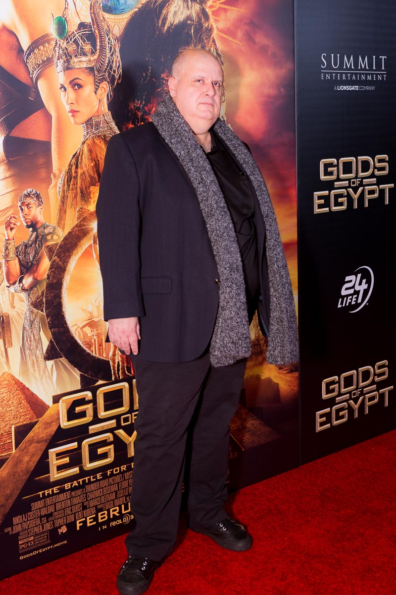 Director Alex Proyas on the red carpet for 'Gods of Egypt' in New York City on February 24, 2016.